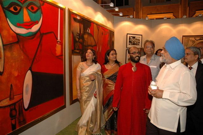 Release of the book - An Enchanting Journey Sunaina Anand, Jayasri Burman, Paresh Maity and Montek Singh Alhuwalia